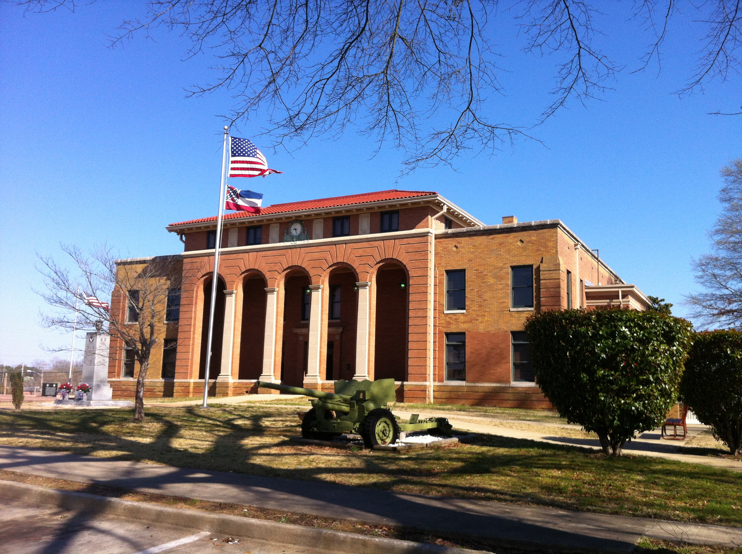 Prentiss County, Mississippi courthouse in Booneville, Mississippi, 23 Mar 2014.